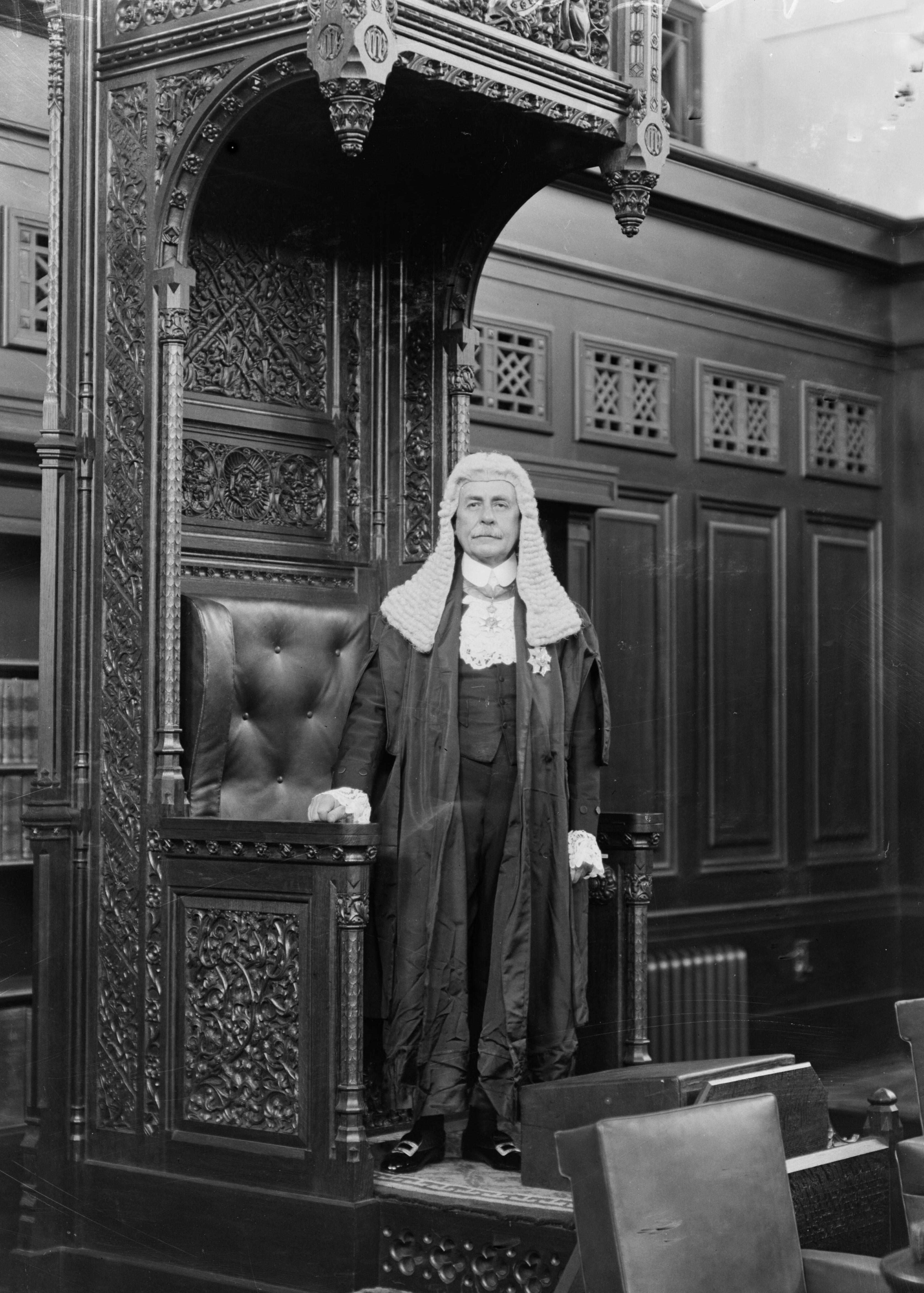 Sir Littleton Groom, Speaker of the Australian House of Representatives, standing next to the Speaker's throne